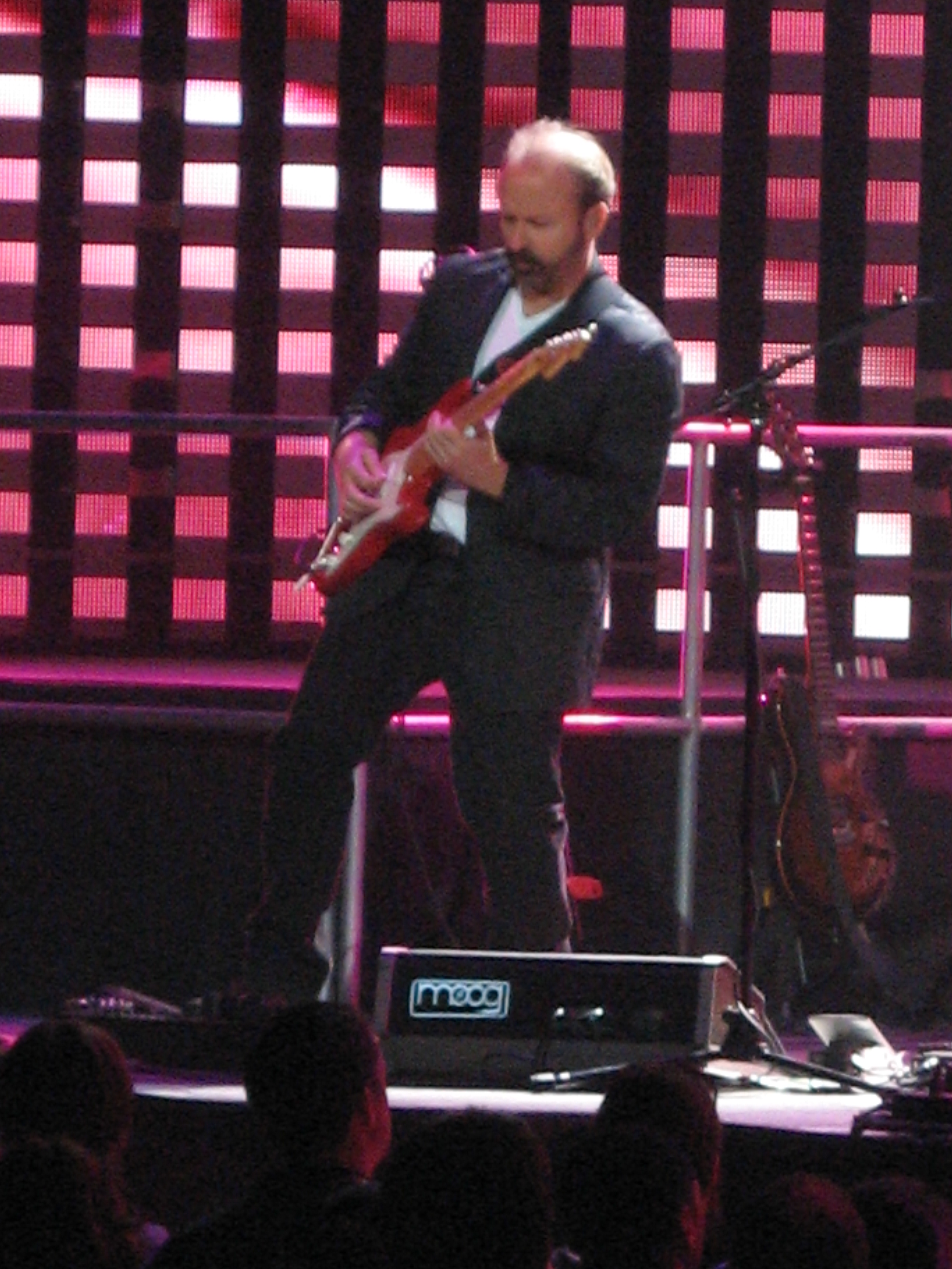 Daryl Stuermer performing "Firth of Fifth" with Genesis in concert at the Verizon Center, Washington, D.C., USA.